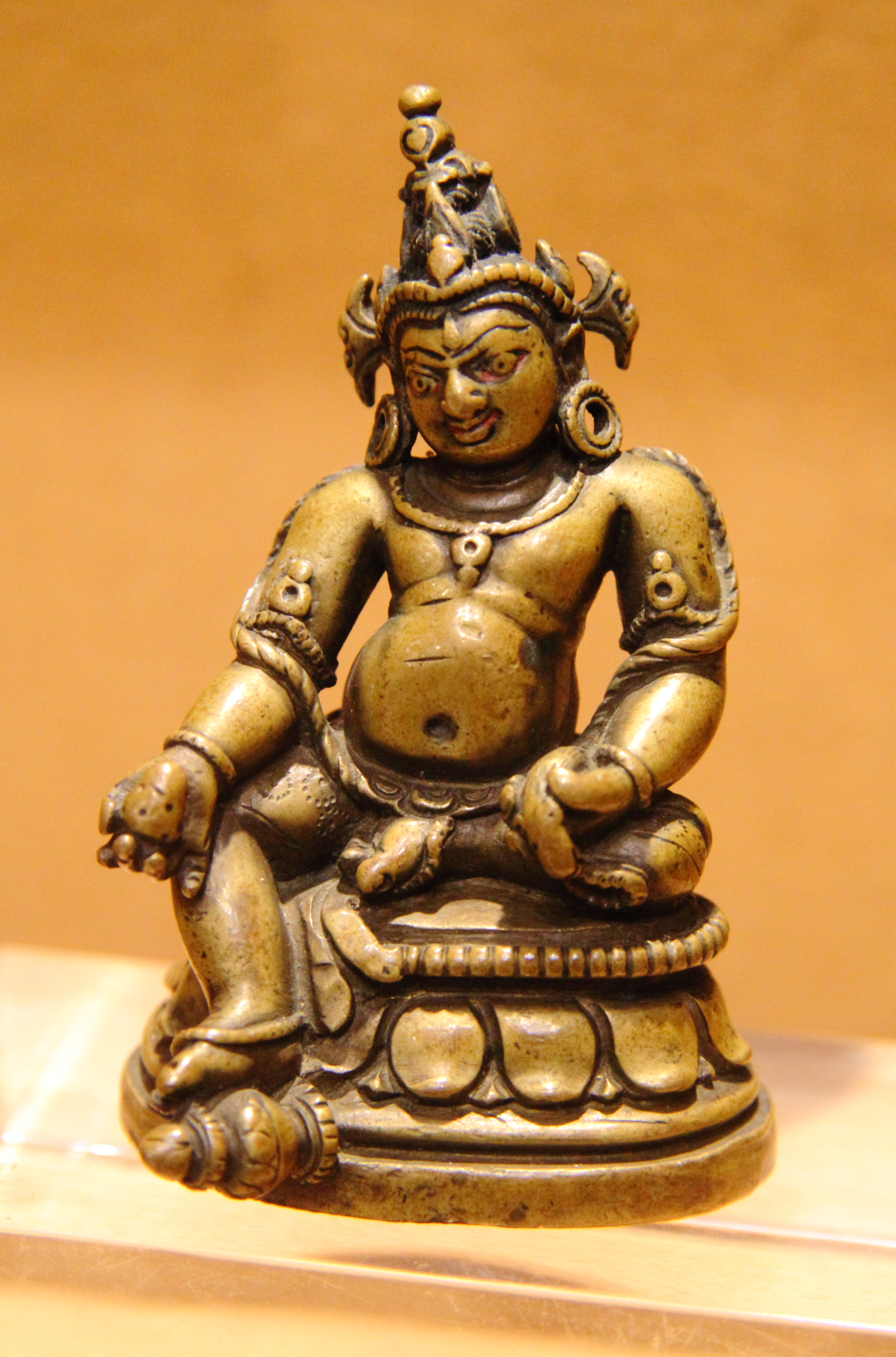 India: National Museum, New Delhi, bronze statuette of Jambhala, a Buddhist deity of wealth (see also Hindu god Kubera), East India, Pala period, 11th century A.D.